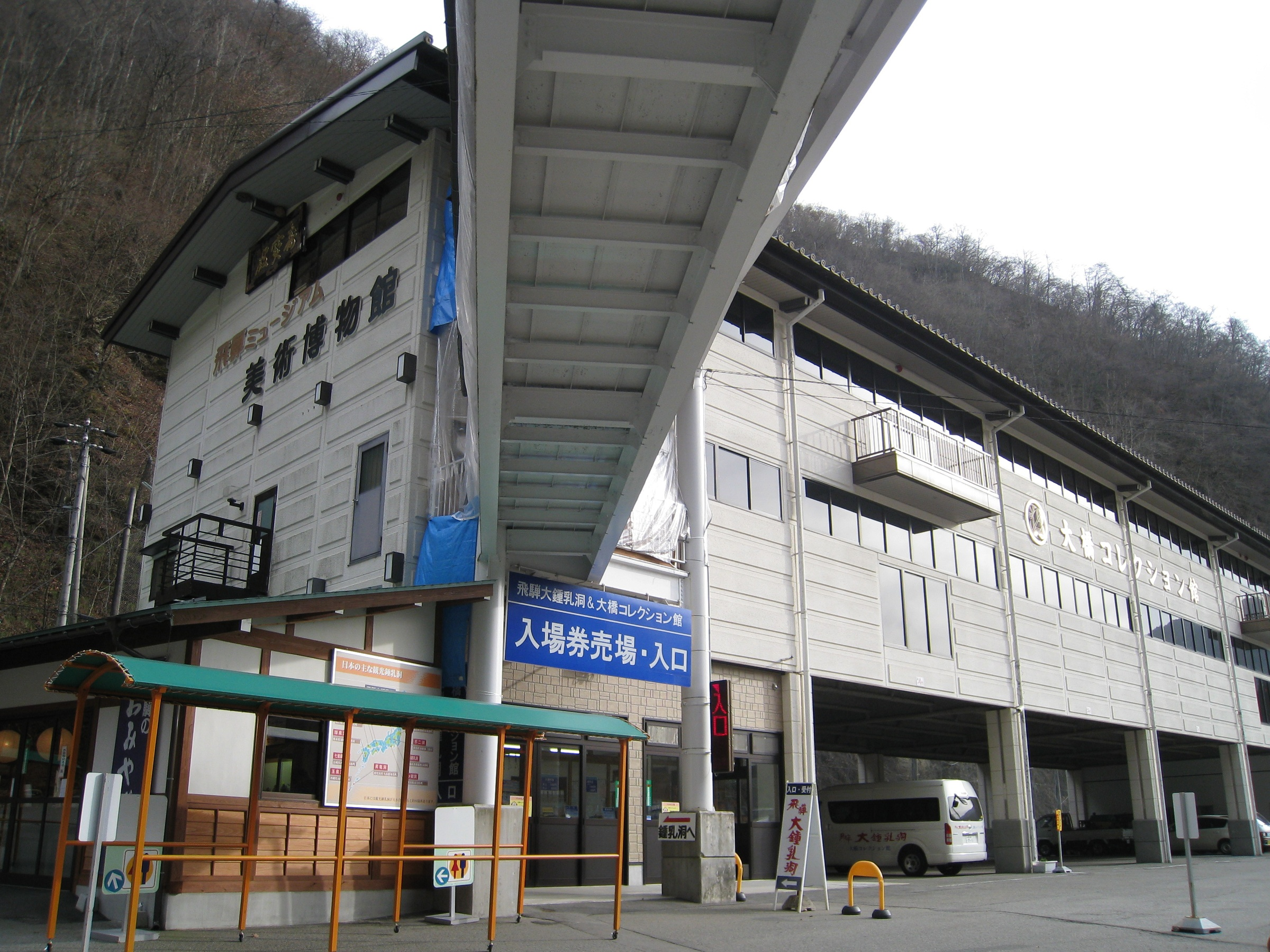 Ohashi Collection Kan Museum, this photo took in December 11, 2008